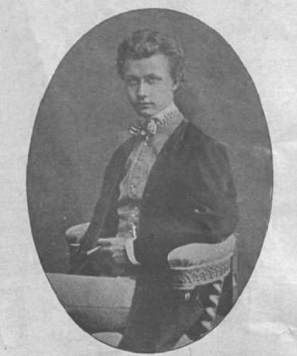 Géza Zichy